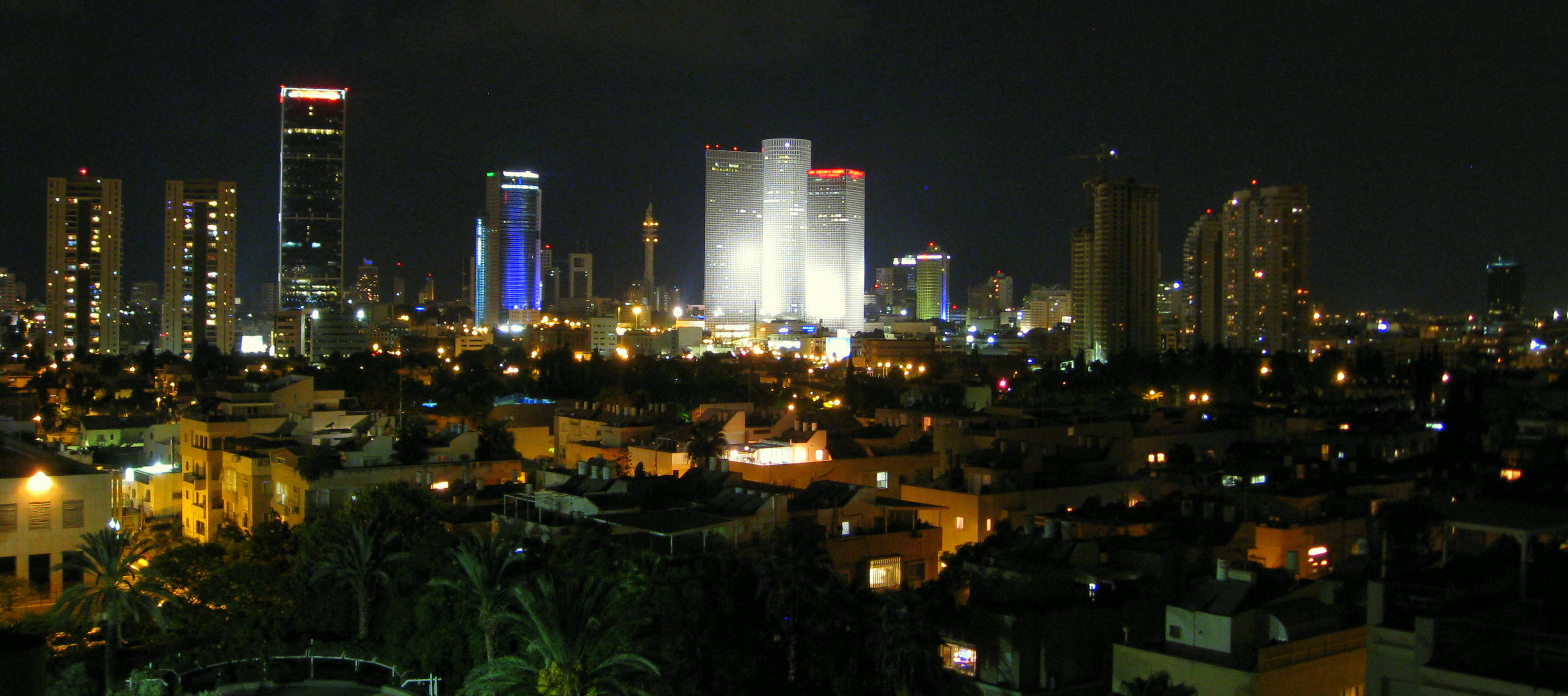 מבט בלילה מגבעת רמב"ם לכיוון מערב